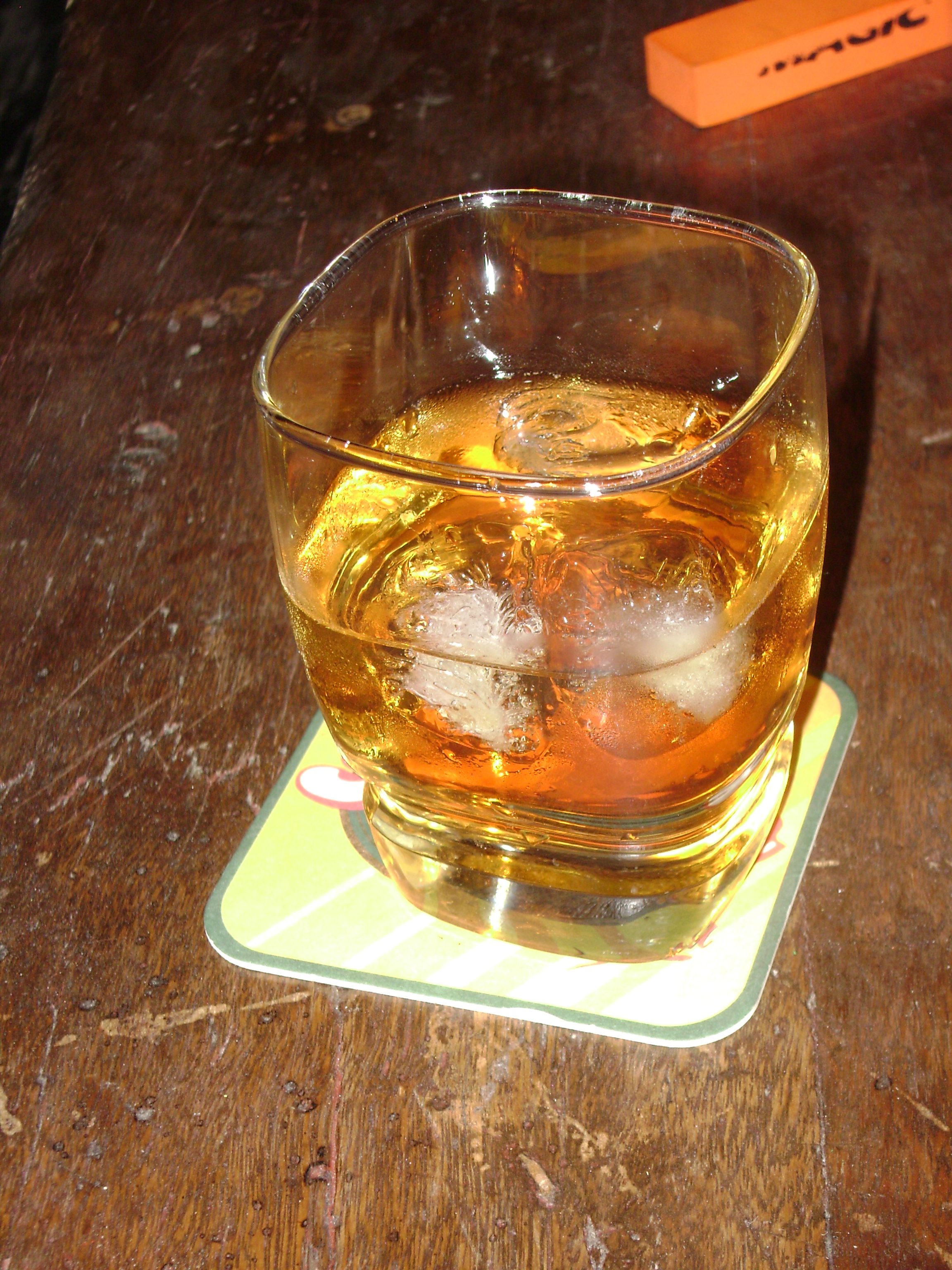 A drink called "El Padrino" or "The Godfather", made with amaretto and whiskey